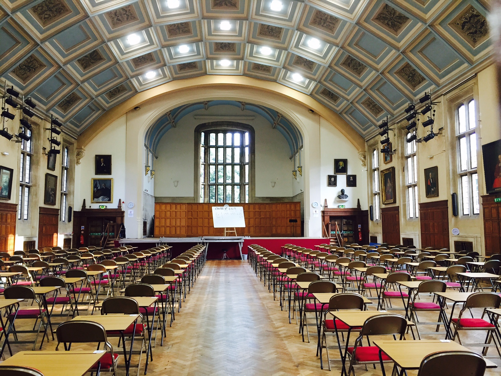 The Shirley Hall was built on the site of the tennis courts and opened by the Queen Mother in 1957. Assemblies, plays, concerts and public examinations all take place here. Underneath the Hall is the Pupils’ Social Centre